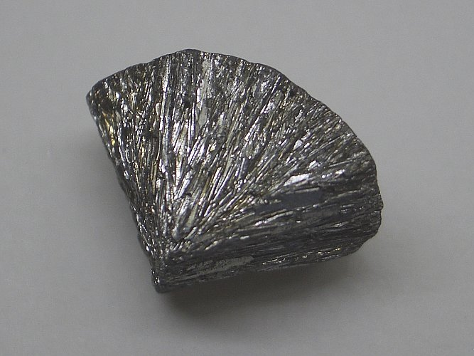 Quarter of a tellurium disc